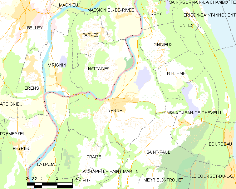 Map of French municipality Yenne